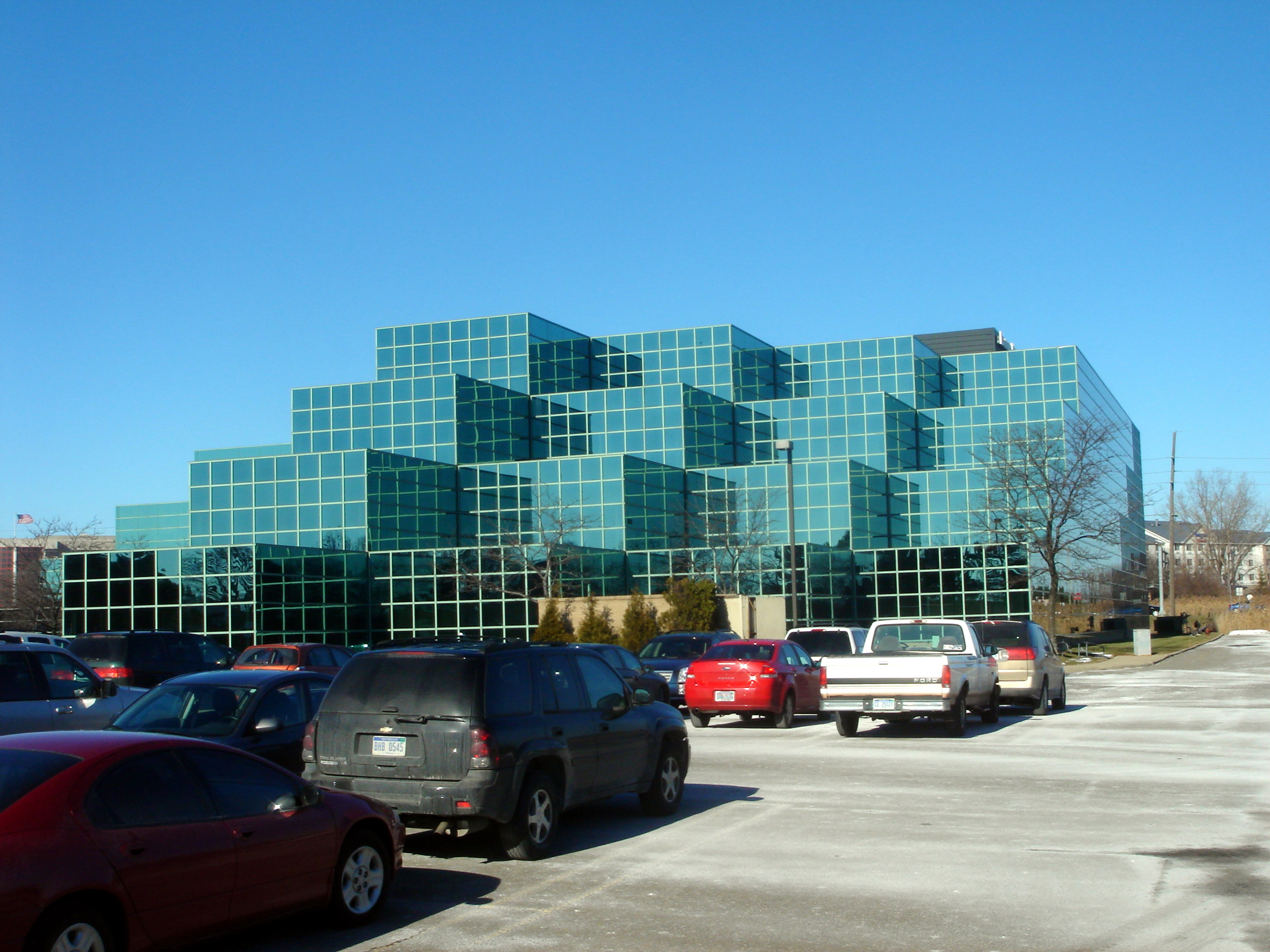 Livonia, Eastern Michigan University Continuing Ed building